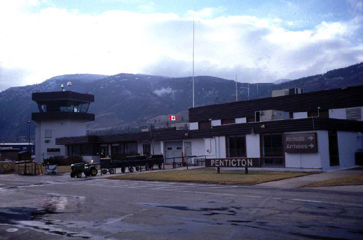 The main terminal of the Penticton Regional Airport, which is located in Penticton, British Columbia, Canada